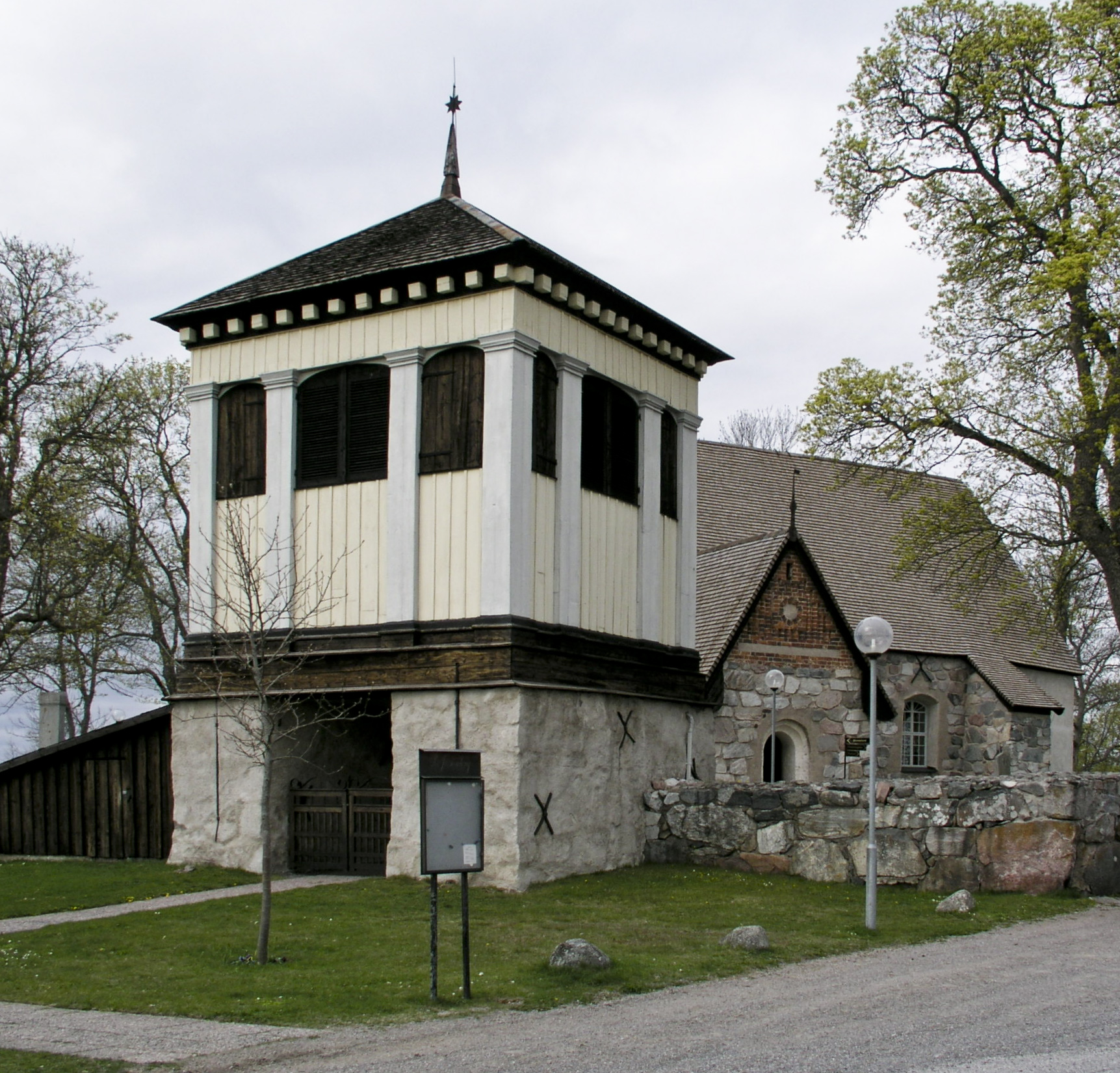 Rö kyrka, bell tower. Diocese of Uppsala, Norrtälje, Sweden